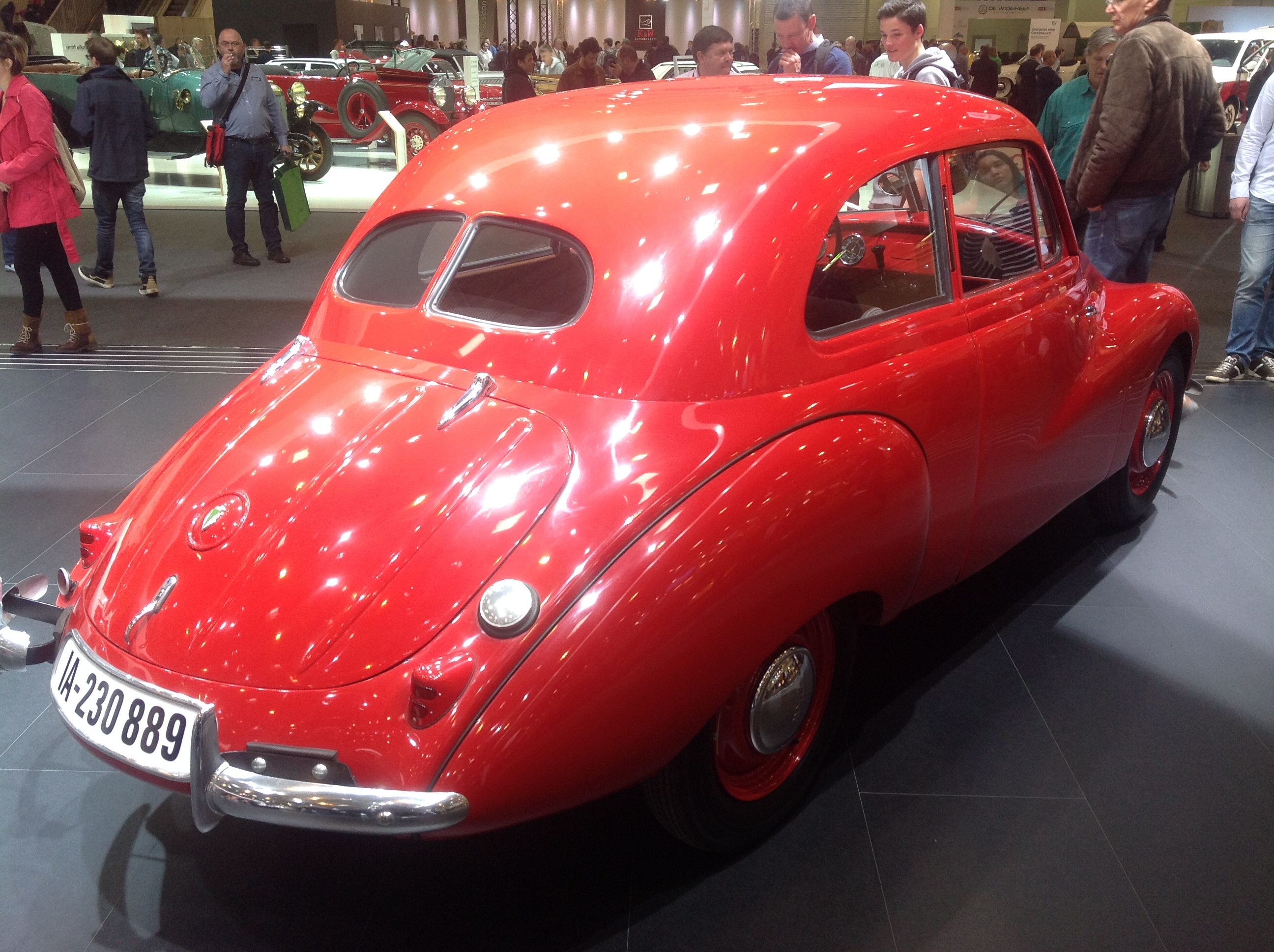 This must have looked very advanced in 1941. A similar car was built by IFA first in Zwickau in 1949, then Eisenach from 1953, called the IFA F9. The underpinnings of the this car were used in the first Wartburg. A parallel car was introduced by Auto-Union DKW in 1953 as the DKW Sonderklasse (see previous photos).